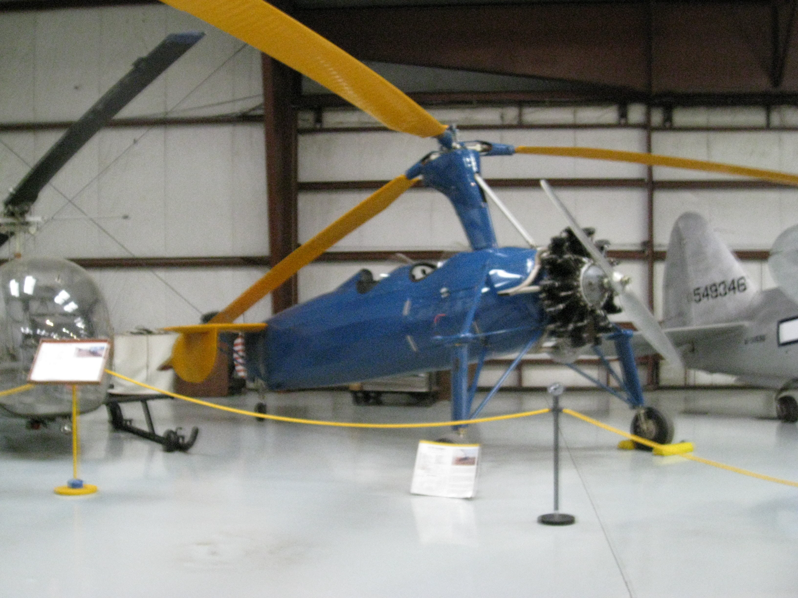 Kellett KD-1 (YG-1B) autogiro (37-381), at the Yanks Air Museum, Chino CA